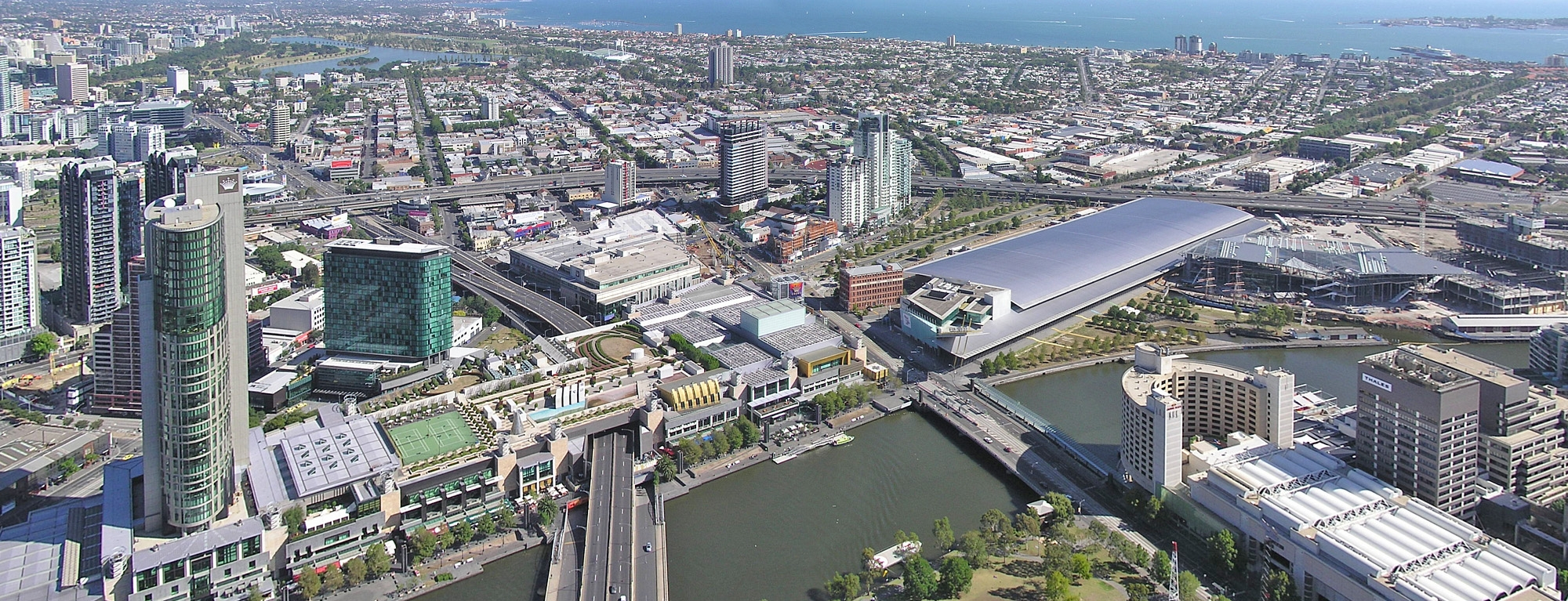 Crown Casino Complex & Melbourne Convention and Exhibition Centre (Panorama)